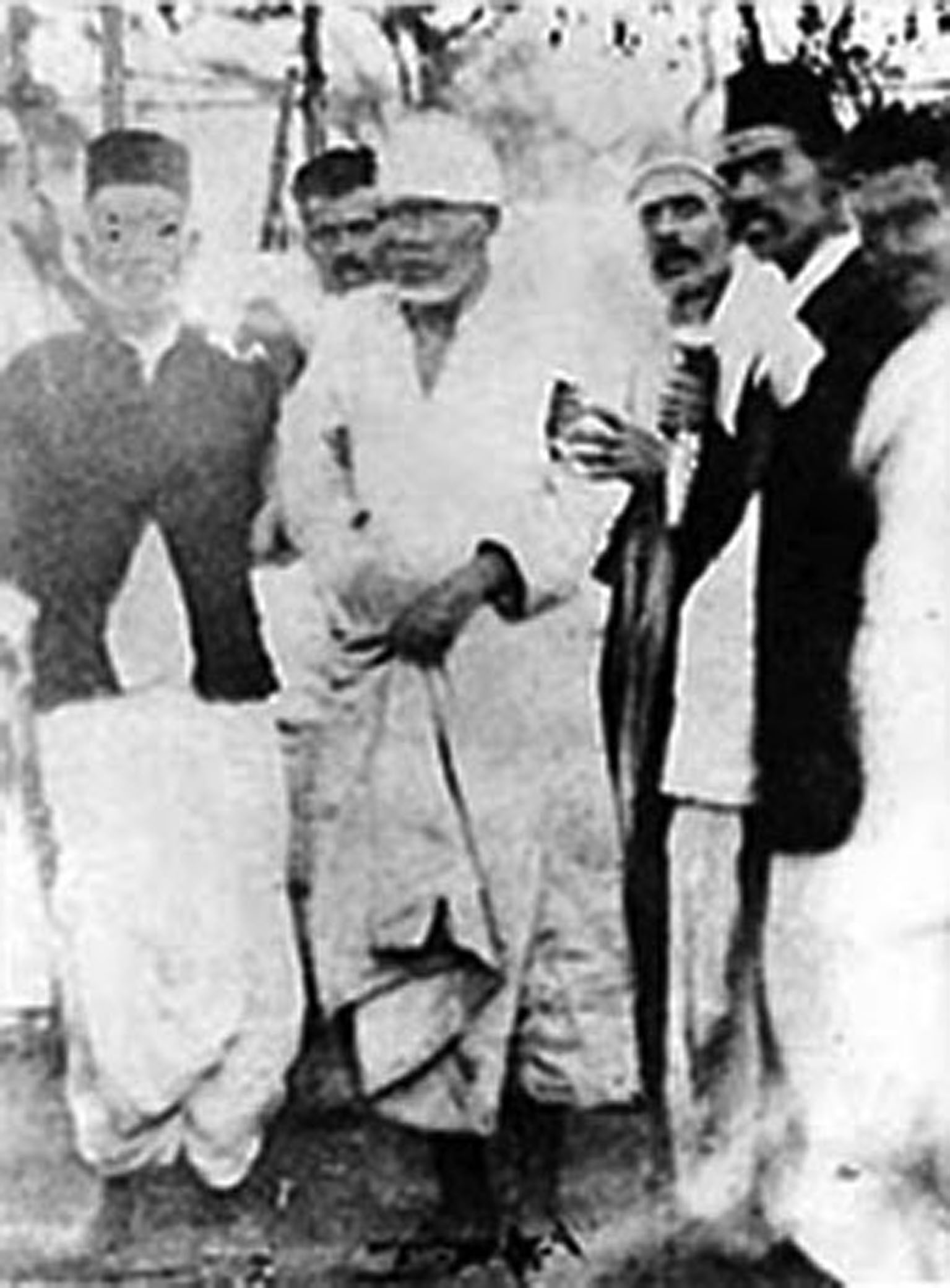 Sai Baba of Shirdi among his devotees, going towards the Chavadi building in procession